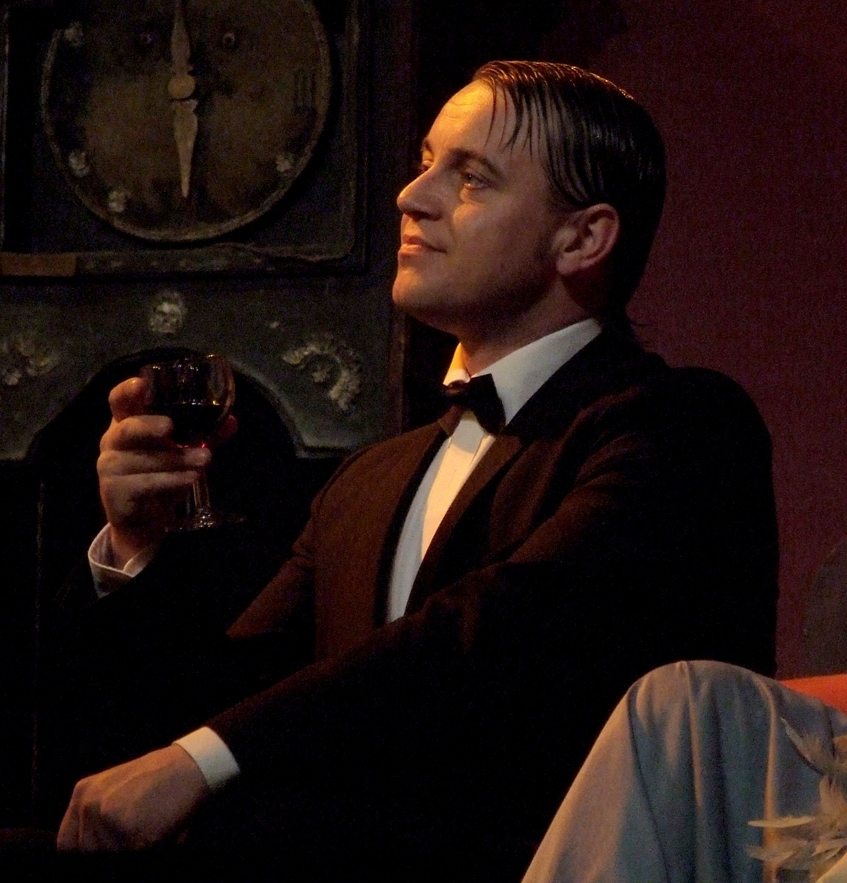 "Znany" Wojtek Kamiński at "Powróćmy jak za dawnych lat" June 2008